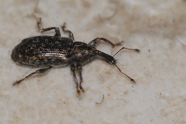 Notaris scirpi from Commanster, Belgian High Ardennes .